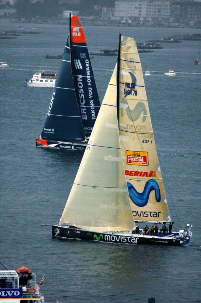 VOR2005 start at Vigo (Spain)